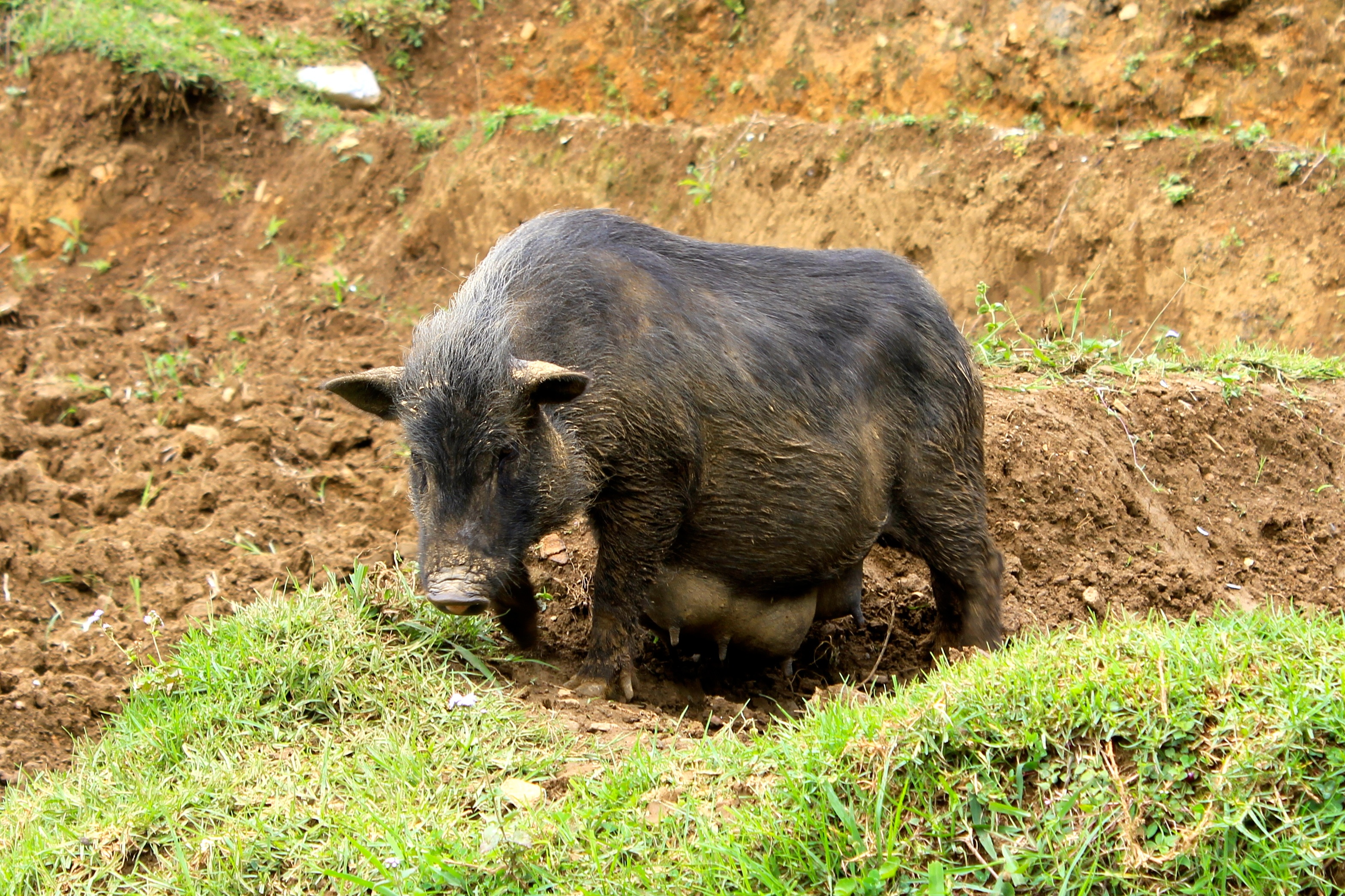 Pig in North Vietnam